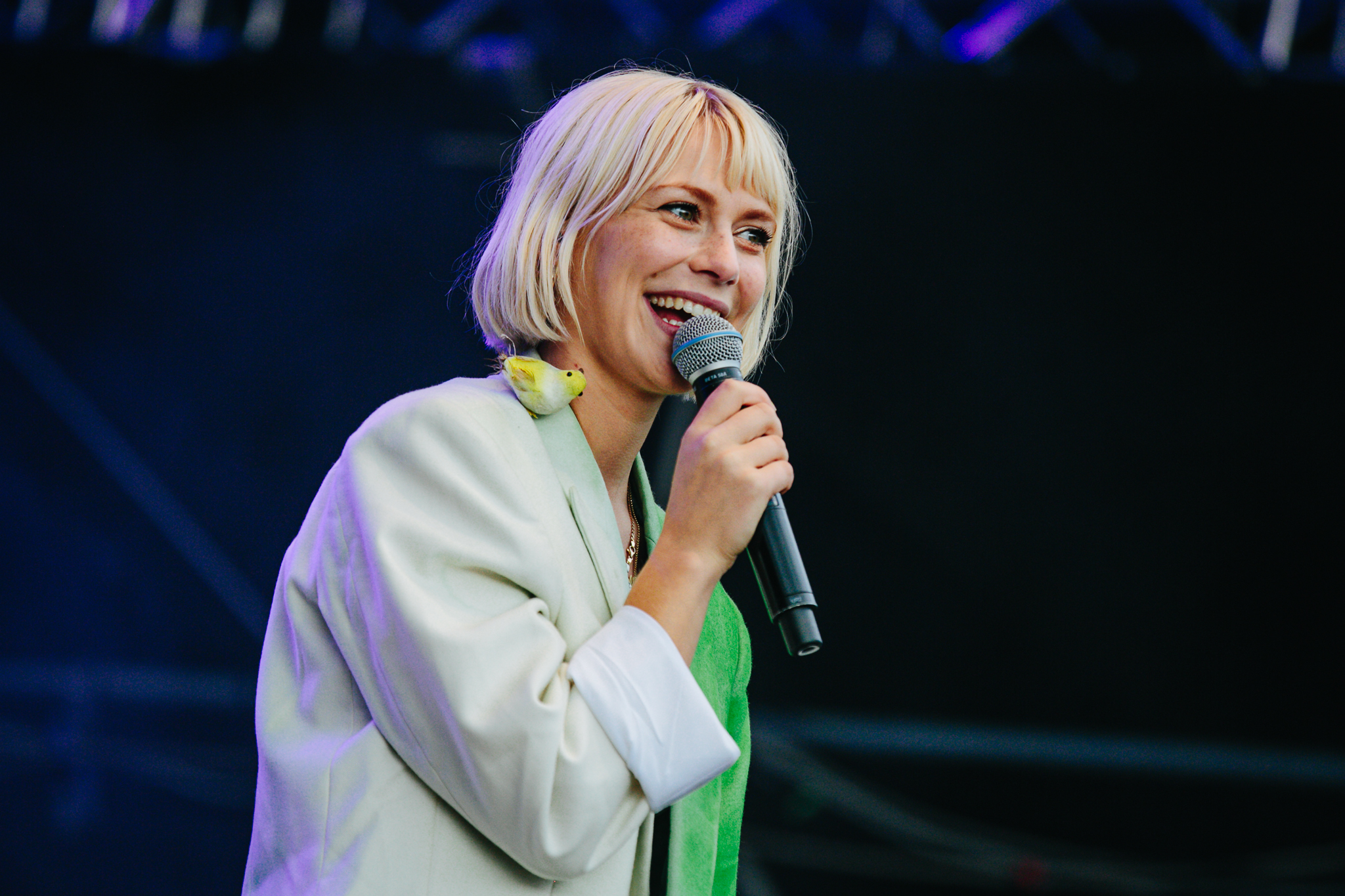 Alli Neumann at Rocken am Brocken 2019